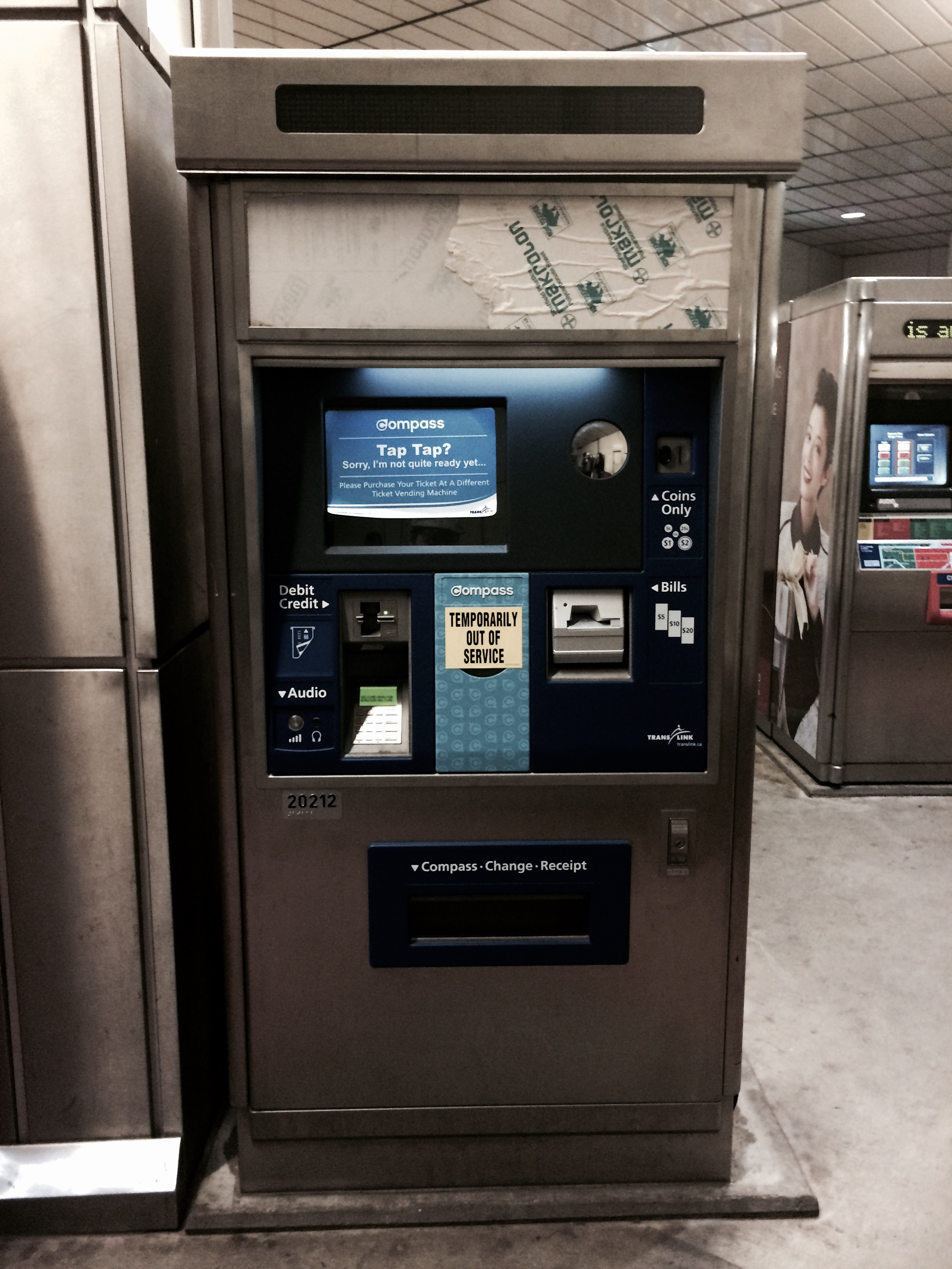 Photo from December 2014 of a 2-year-old Compass Card fare machine that is still inoperable and out-of-order.